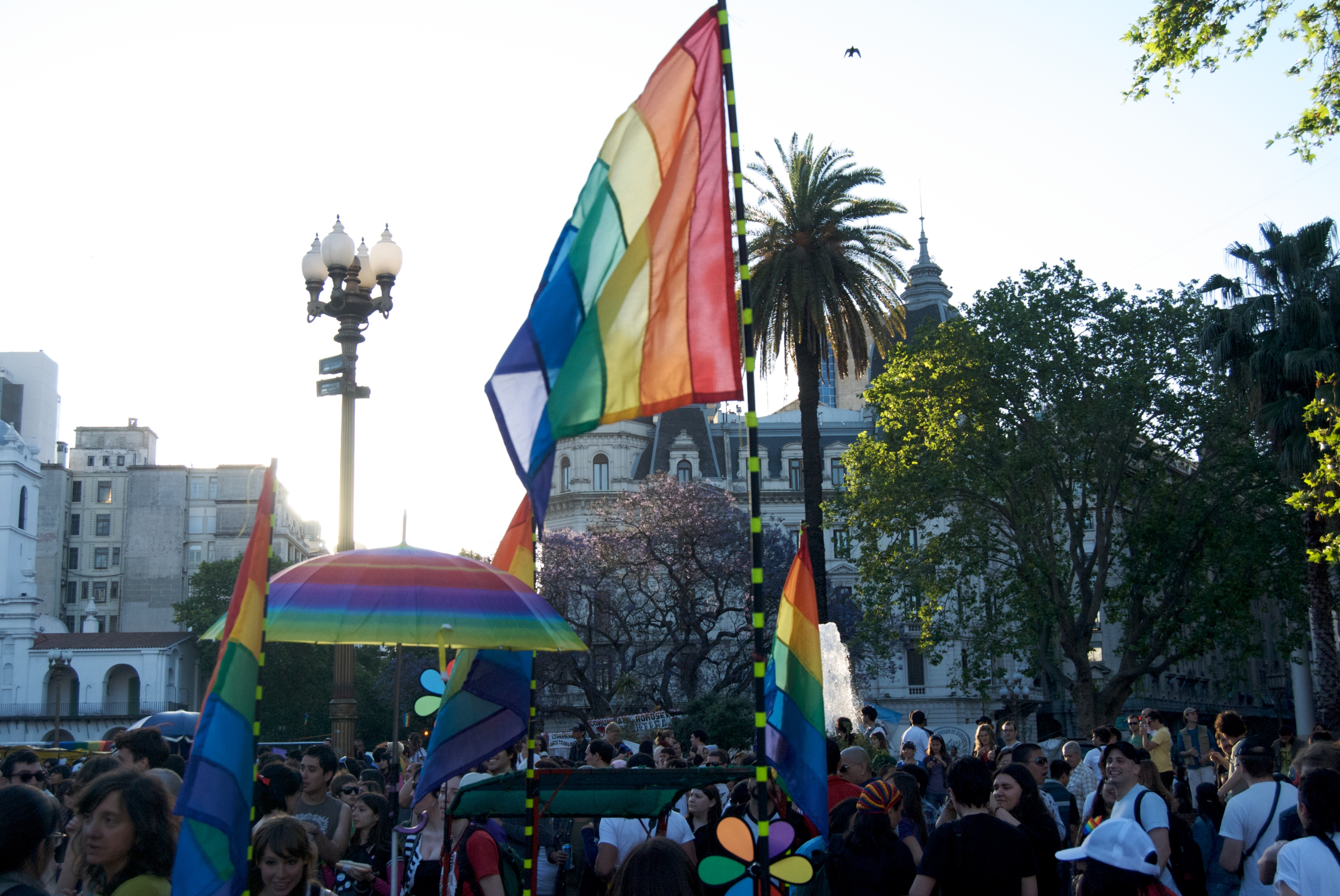 LGBT Marcha del Orgullo 2009